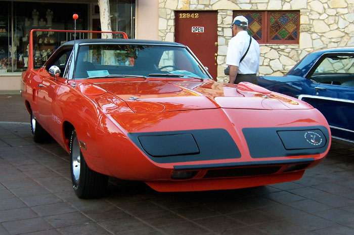 Plymouth Superbird. This one, engined with a Chrysler 440 Six-Pack, was photographed by User:Morven at the weekly Garden Grove, California car show on Friday July 23, en:2004.